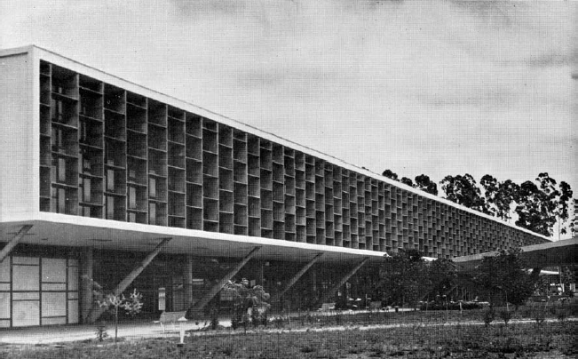 Atual pavilhão das culturas brasileiras, integra o conjunto do parque do Ibirapuera em São Paulo